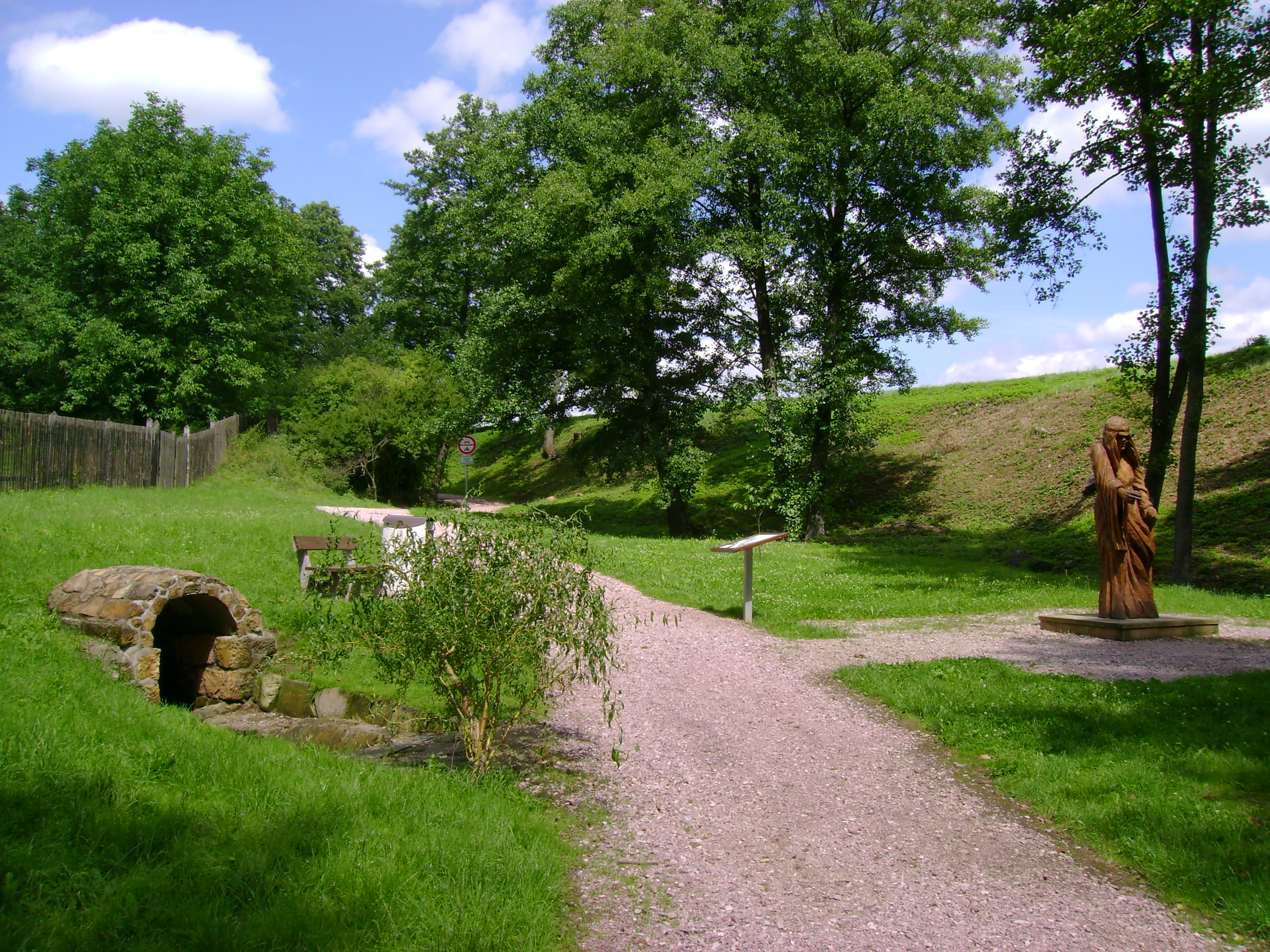 Spring and the statue of "Lady Midday" (Polednice) in Miletín, Jičín District, the Czech Republic.Statue was unveiled on June 19, 2010. Sculptor: Michal Jára (b. 1977).